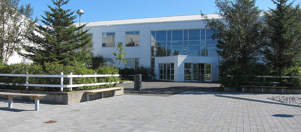 The school building of the Reykjavik International School